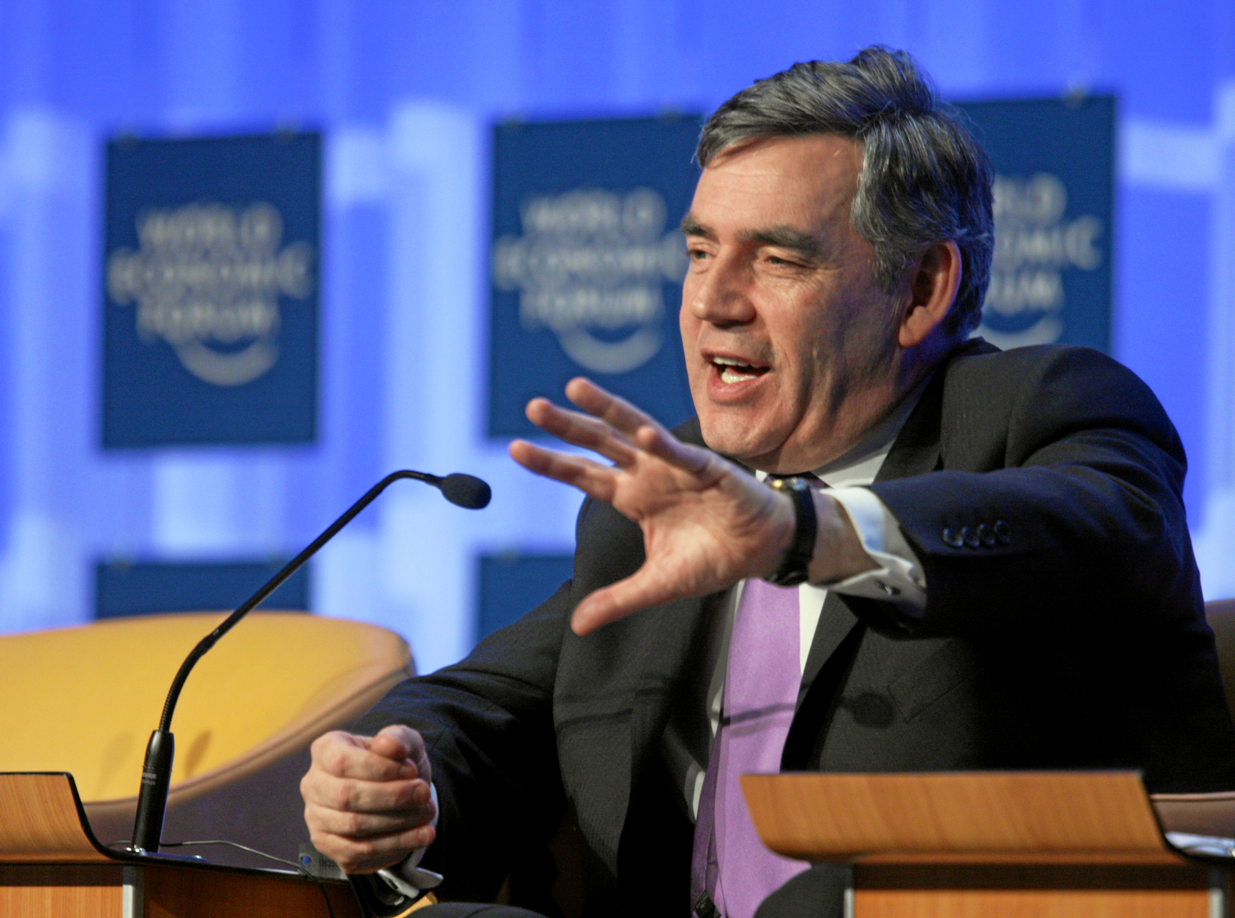 Gordon Brown, Prime Minister of the United Kingdom, at the session Three Crucial Questions for the Prime Minister of the United Kingdom, Gordon Brown at the Annual Meeting 2008 of the World Economic Forum in Davos, Switzerland, on 25 January 2008.